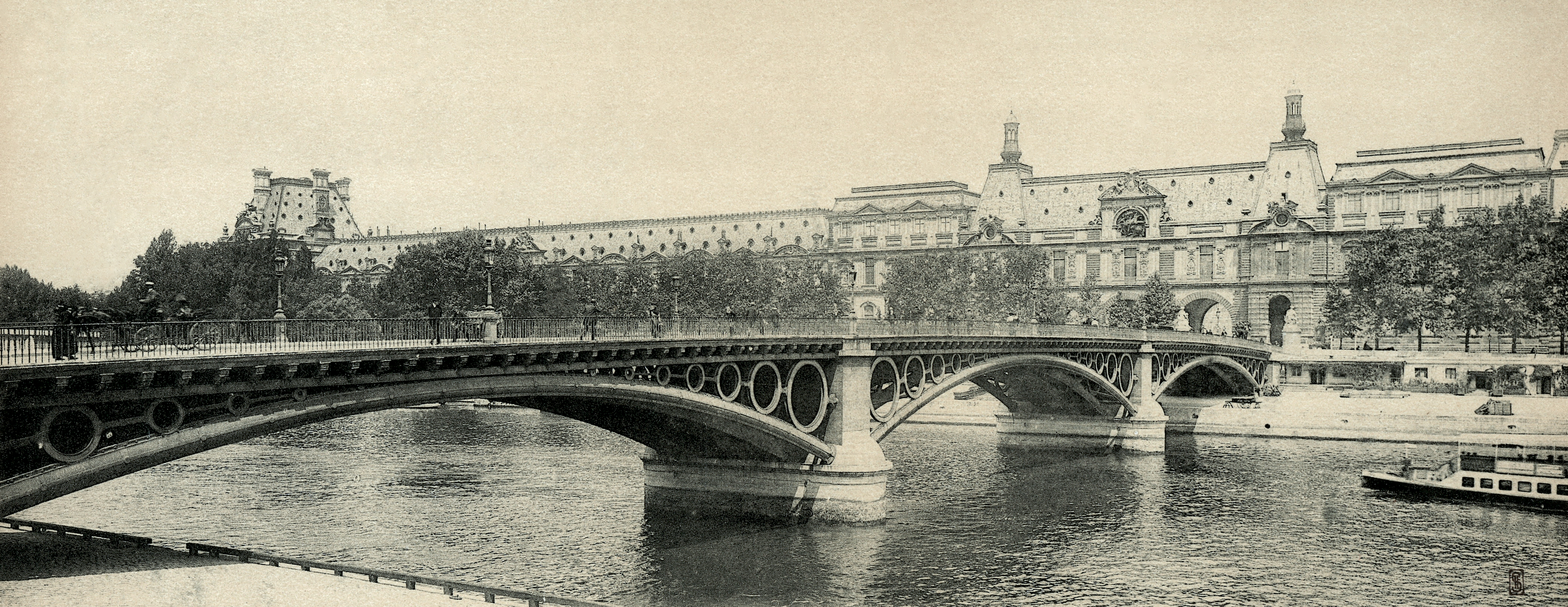 Pont du Carrousel, Paris.